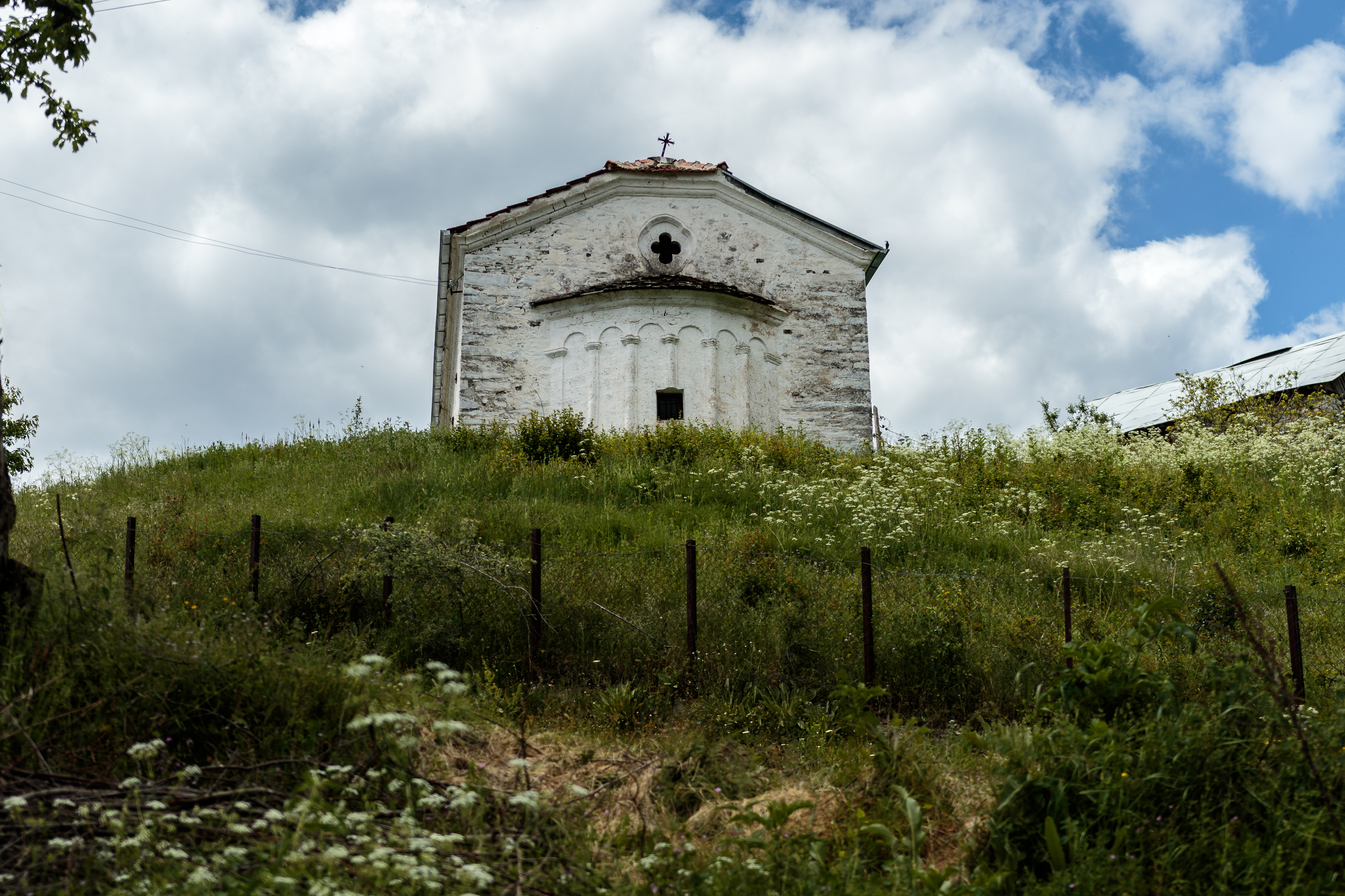 View of the St. Elijah Church in the village Zašle